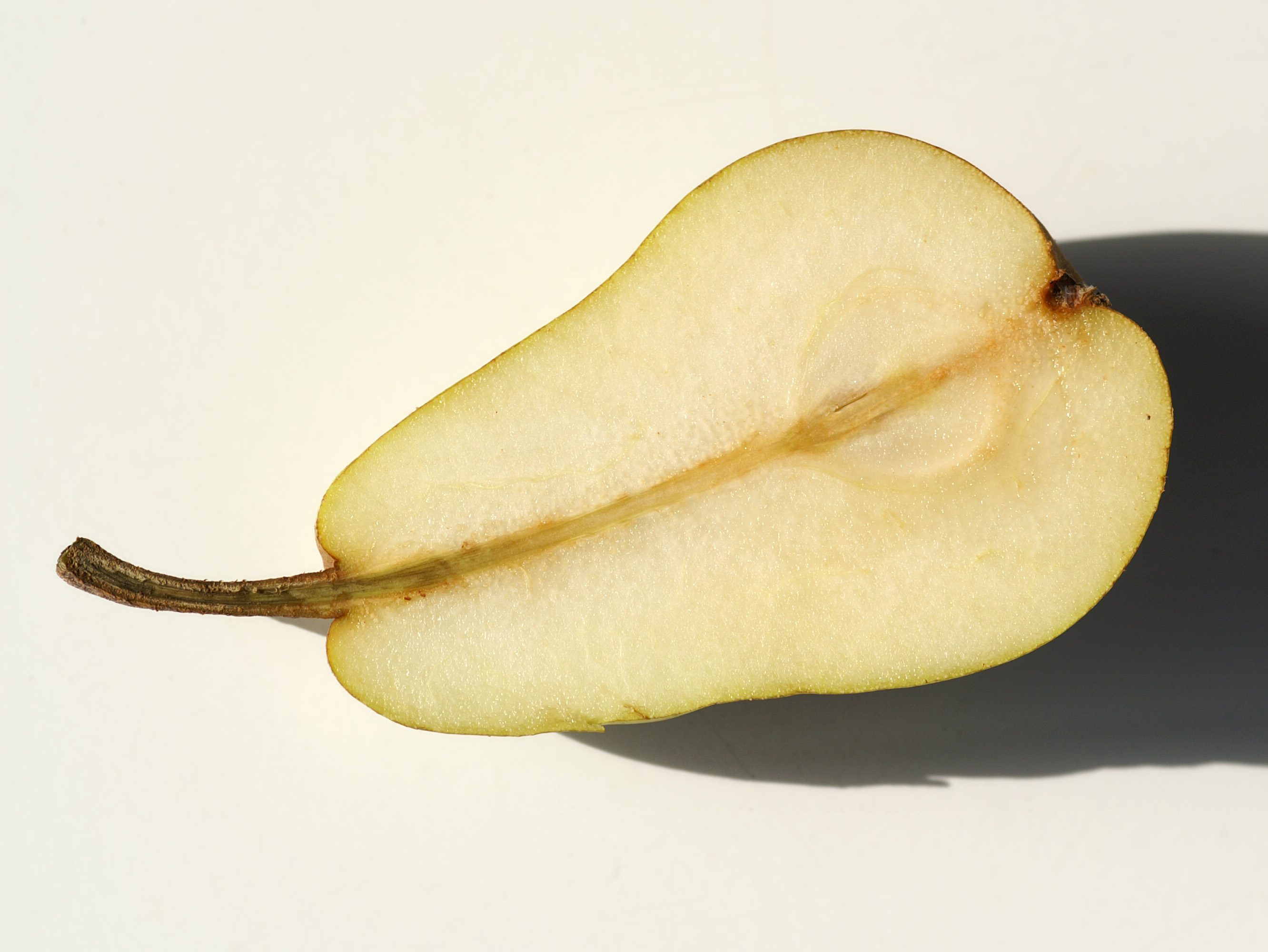 Williamsbirnenhälfte / half of a Pear / Pyrus